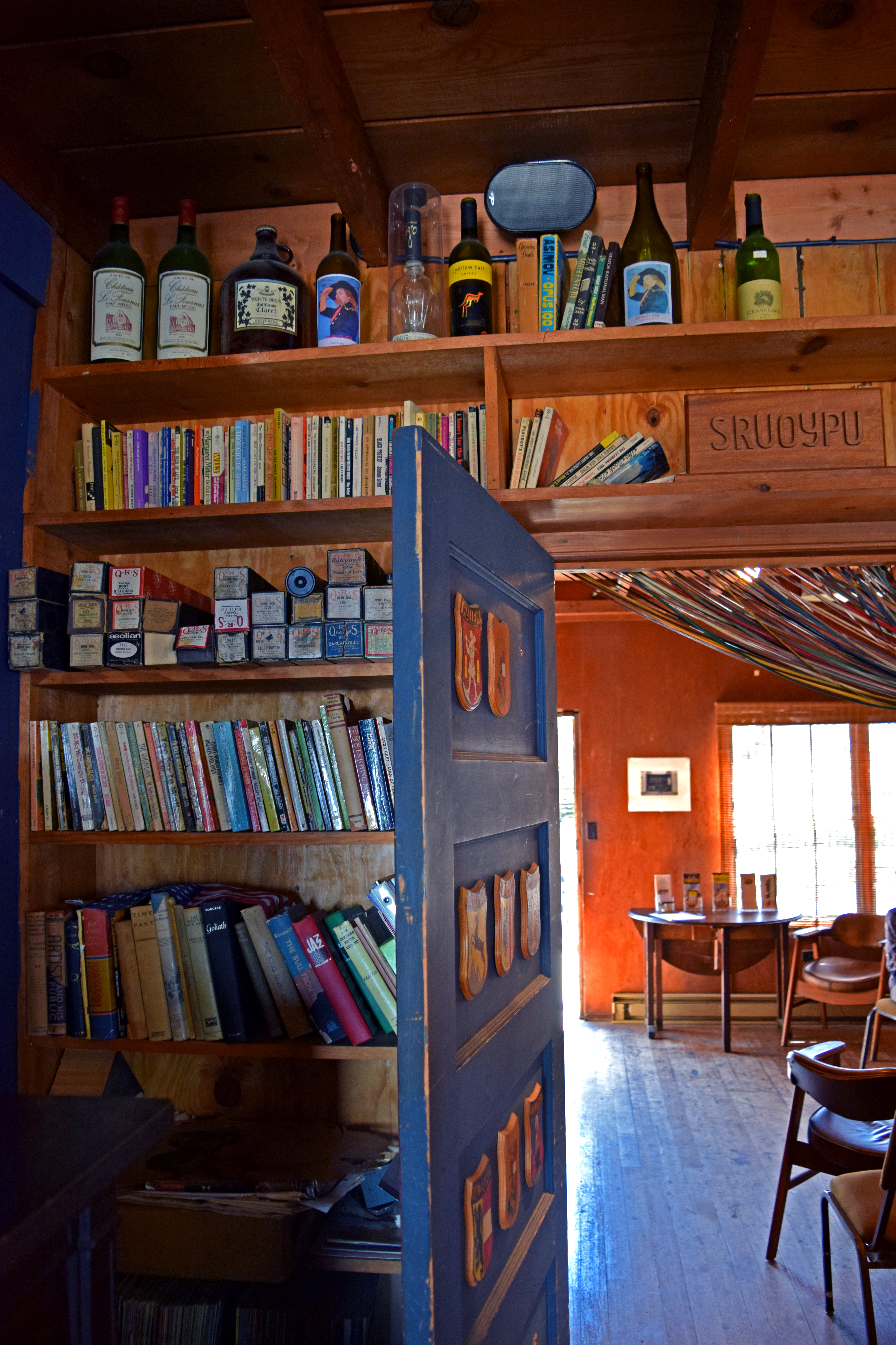 Pacific Biological Laboratories, upstairs interior.